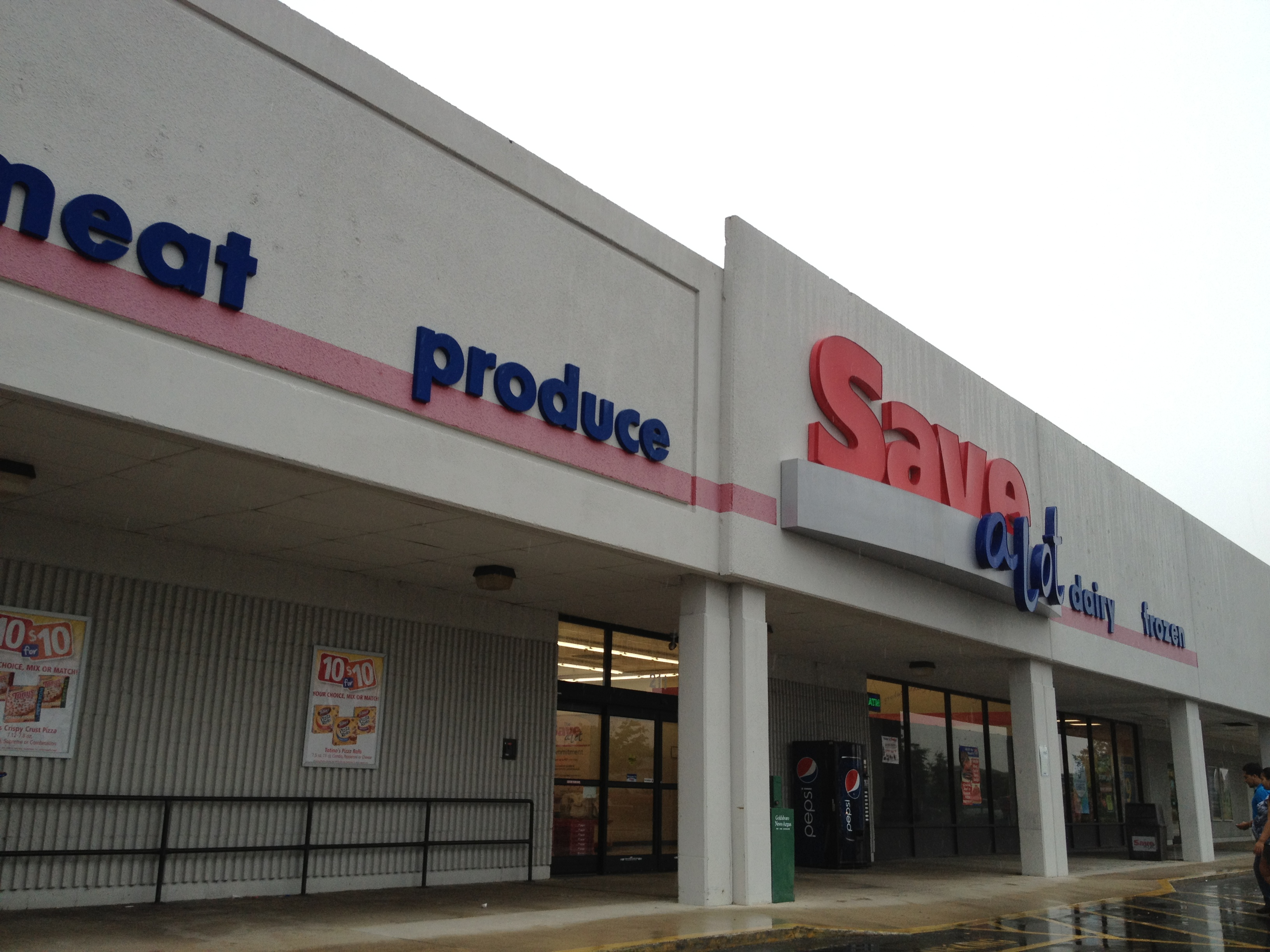 Winn Dixie (now Save A Lot) Goldsboro, NC